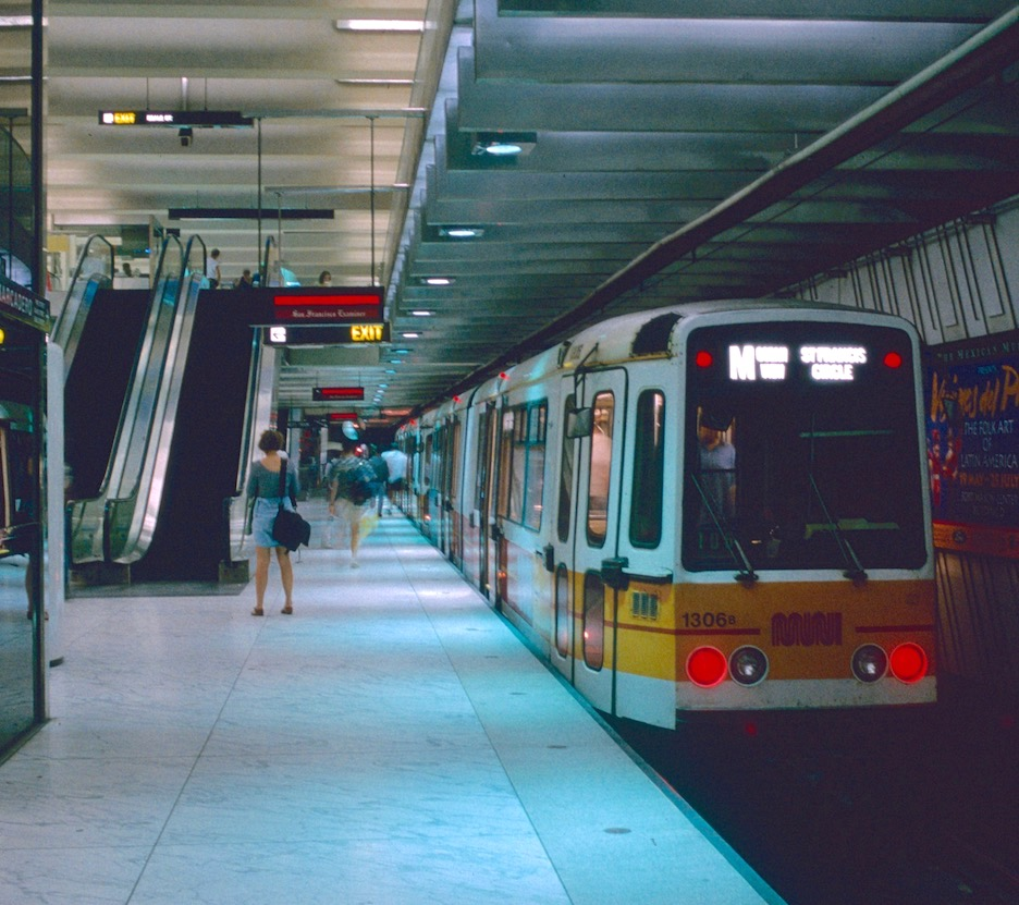 San Francisco: Car 1306 is at the near end of a two-car train of U.S. Standard Light Rail Vehicles (Boeing-Vertol LRVs), waiting at Embarcadero station to depart for St. Francis Circle on line M Ocean View, in 1993.